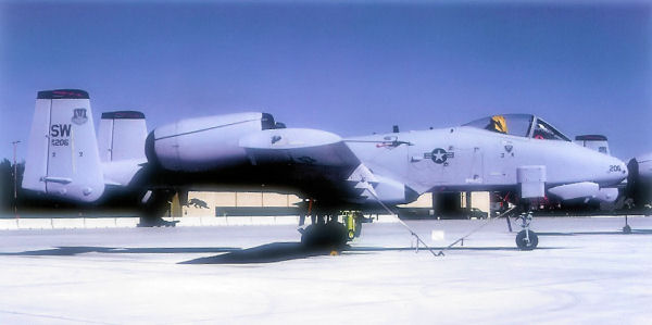 OA-10A 79-206 of the 21st Fighter Squadron, Shaw Air Force Base, SC.